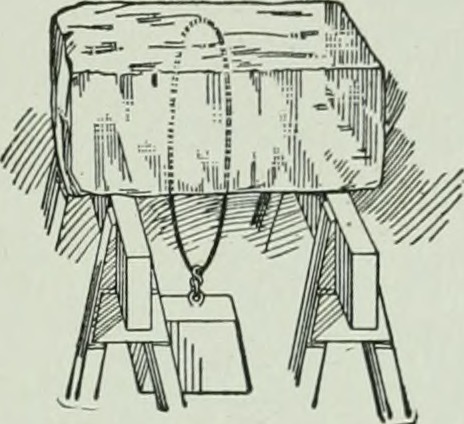 From book "The Ontario high school physics" Year: 1917 (1910s) Authors: Merchant, F. W. (Francis Walter), 1855-1937 Chant, Clarence Augustus, 1865-1956 Subjects: Physics Physics Publisher: Toronto : Copp Clark Contributing Library: The University of Western Ontario, Western Archives Digitizing Sponsor: Ontario Council of University Libraries and Member Libraries Caption: "Regelation of Ice" "If a substance expands on melting, its melting point will be raised by pressure, while if it contracts its melting point will be lowered. We would expect this. Since extra pressure applied to a body which takes a larger volume on melting would tend to prevent it from expanding, it would be reasonable to suppose that a higher temperature would be necessary to bring about the change; on the other hand, if the body contracts on melting,increased pressure would tend to assist the process of change,and a lower temperature should suffice. An interesting experiment shows the effect of pressure on the melting point of ice. Take a block of ice and rest it on two supports, and encircle it with a fine wire from which hangs a heavyweight (Fig. 276). In a few hours the wire will cut its way through the ice, but the block will still be intact. Under the pressure of the wire the ice melts, but the water thus formed is below the normal freezing point. Hence it flows above the wire and freezes again as the pressure there is normal. The process of melting and freezing again under these conditions is called regelation."